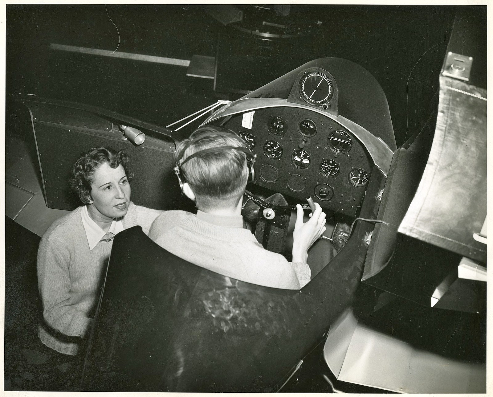 Brazilian aviator Anésia Pinheiro Machado (1904-1999) in the United States.